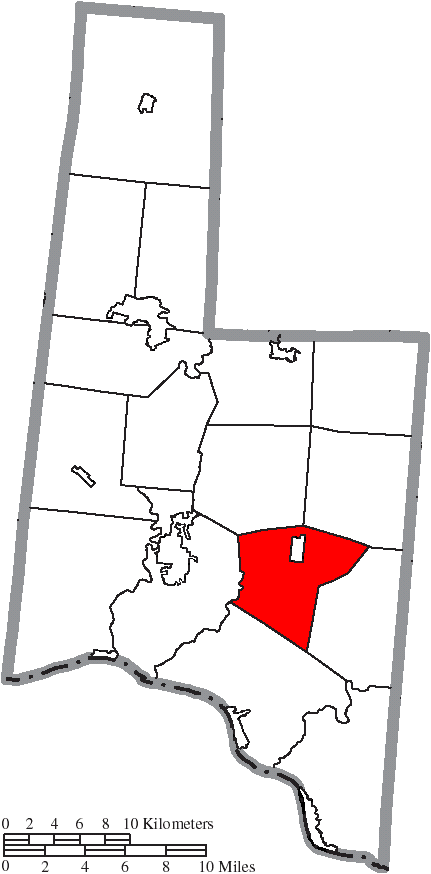 Map of the municipal and township boundaries of Brown County, Ohio, United States, as of the 2000 census, with the location of Jefferson Township highlighted. Township borders are shown only in unincorporated areas in order to differentiate incorporated and unincorporated areas more clearly.